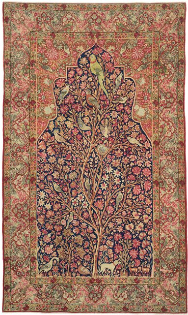 Persian Kermanshah 'Tree of Life', 4' 6" x 7' 8", ca 3rd quarter 19th century)